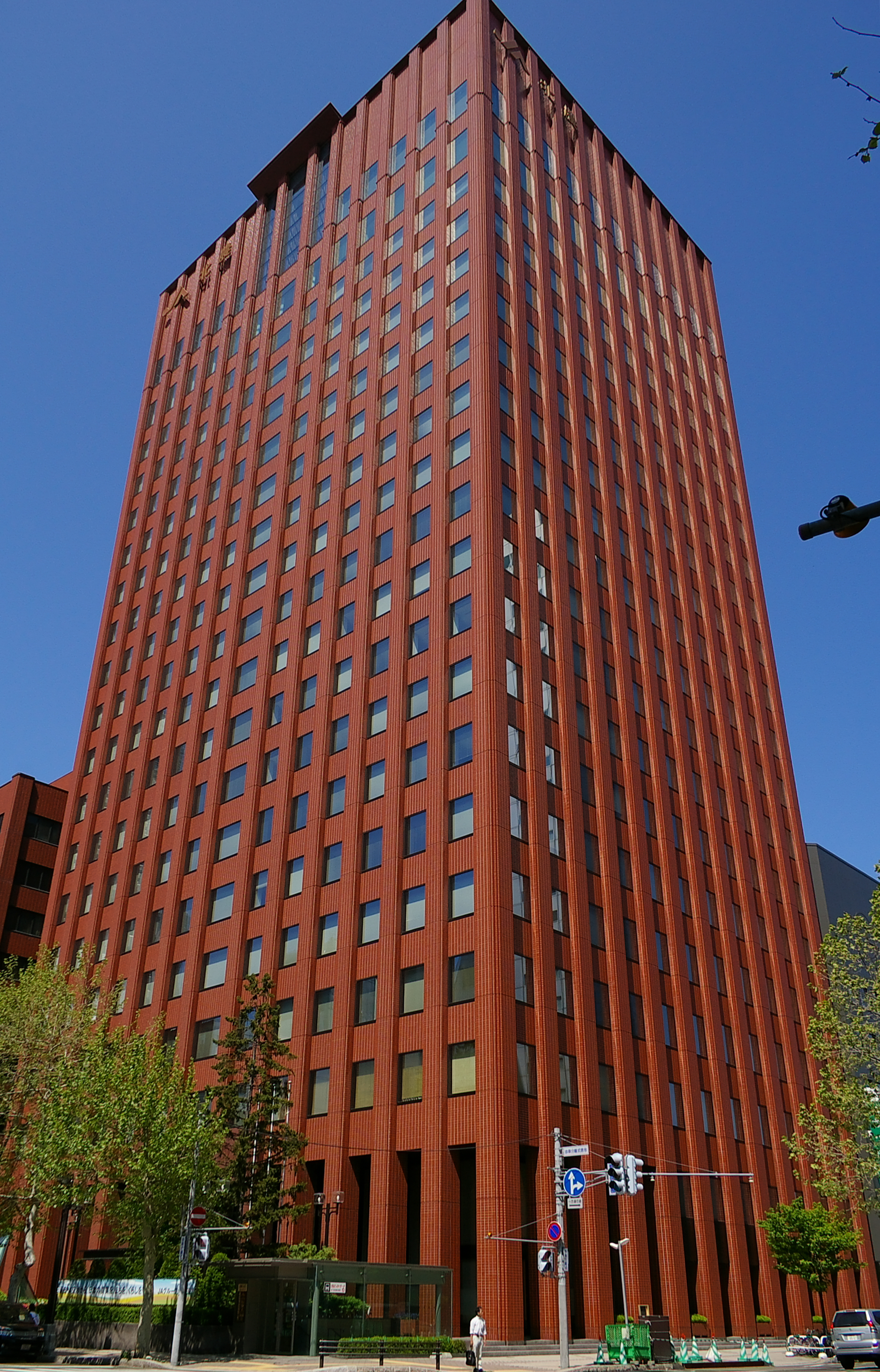 Photograph of JA Hokuno Building, headquarters of Hokkaido Central Union of Agricultural Cooperatives and related organizations, in Chuo-ku, Sapporo, Hokkaido, Japan.